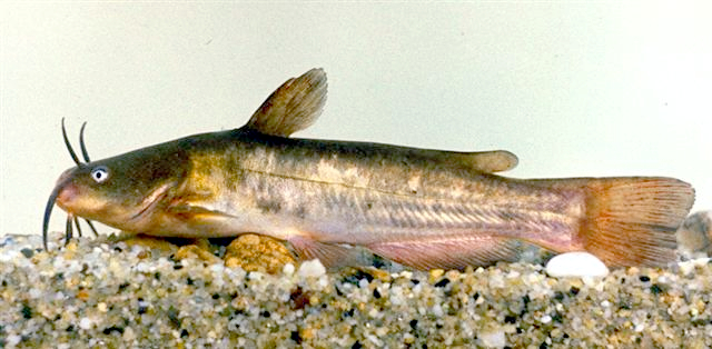 Ameiurus nebulosus photographed in Tiszafüred, river Tisza, Hungary.